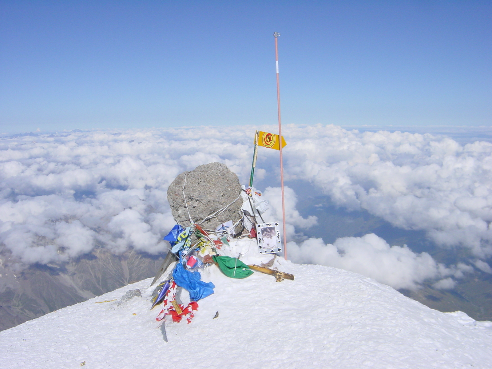 Elbrus summit